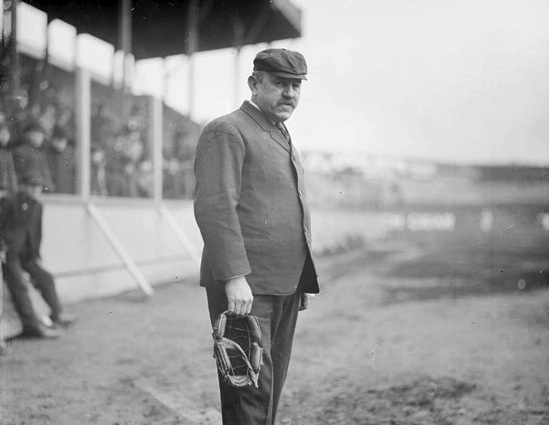 Three quarter length portrait of Sheridan, baseball umpire, American League, holding a mask, standing near grandstand on the field at South Side Park which was located at West 37th Street, South Princeton Avenue, West Pershing Road (formerly West 39th Street), and South Wentworth Avenue in the Armour Square community area of Chicago, Illinois.